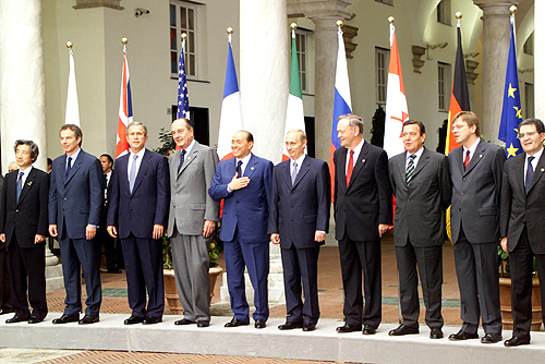 GENOA. Photo session of the G8 leaders - Japanese Prime Minister Junichiro Koizumi, British Prime Minister Anthony Blair, US President George W. Bush, French President Jacques Chirac, Italian Prime Minister Silvio Berlusconi, Russian President Vladimir Putin, Canadian Prime Minister Jean Chretien, German Federal Chancellor Gerhard Schroeder, Belgian Prime Minister Guy Verhofstadt and President of the European Commission Romano Prodi (l-r).